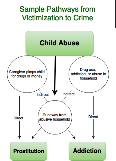 describes how victimization leads women into crime